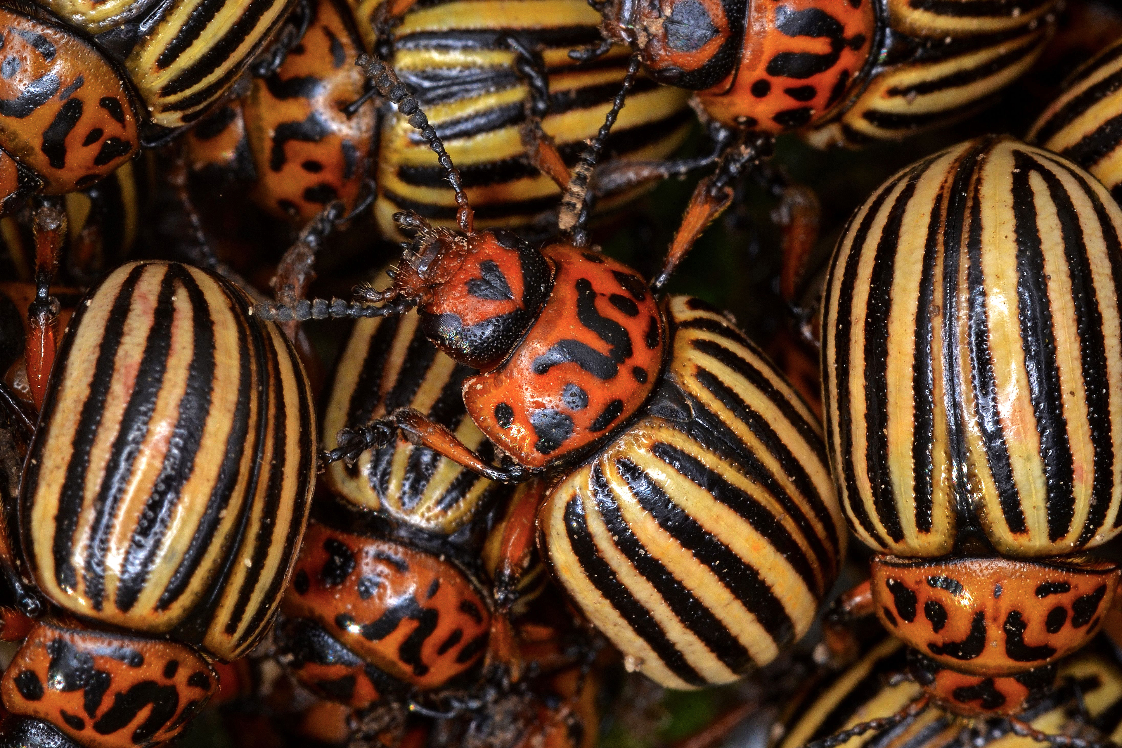 Lots of colorado potato beetles (Leptinotarsa decemlineata) covering potato leaves.